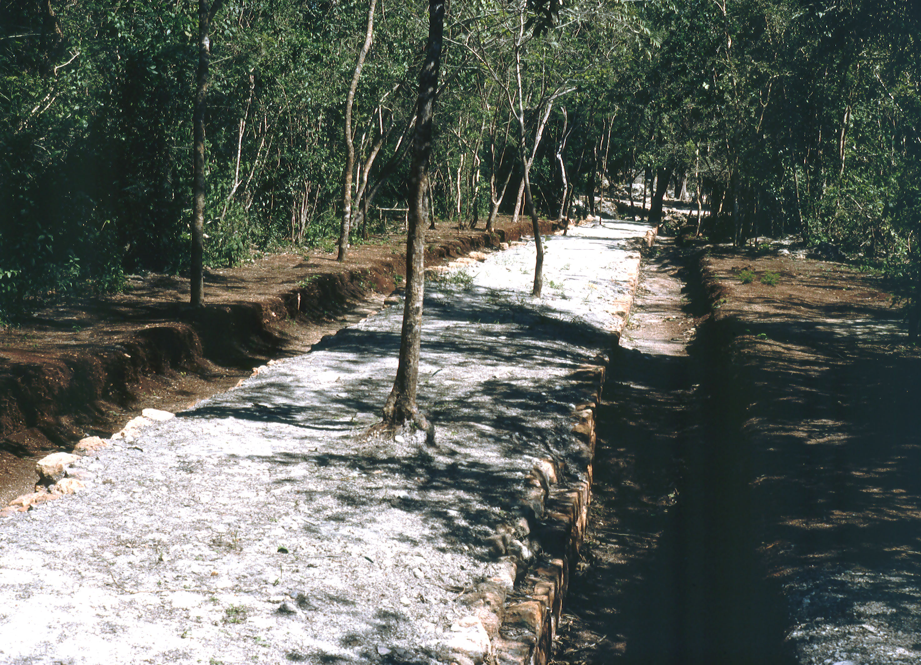 Chichen Itza, Yucatan, Mexico. Local sacbé no. 6connecting "El Osuario" with the Xtoloc temple..